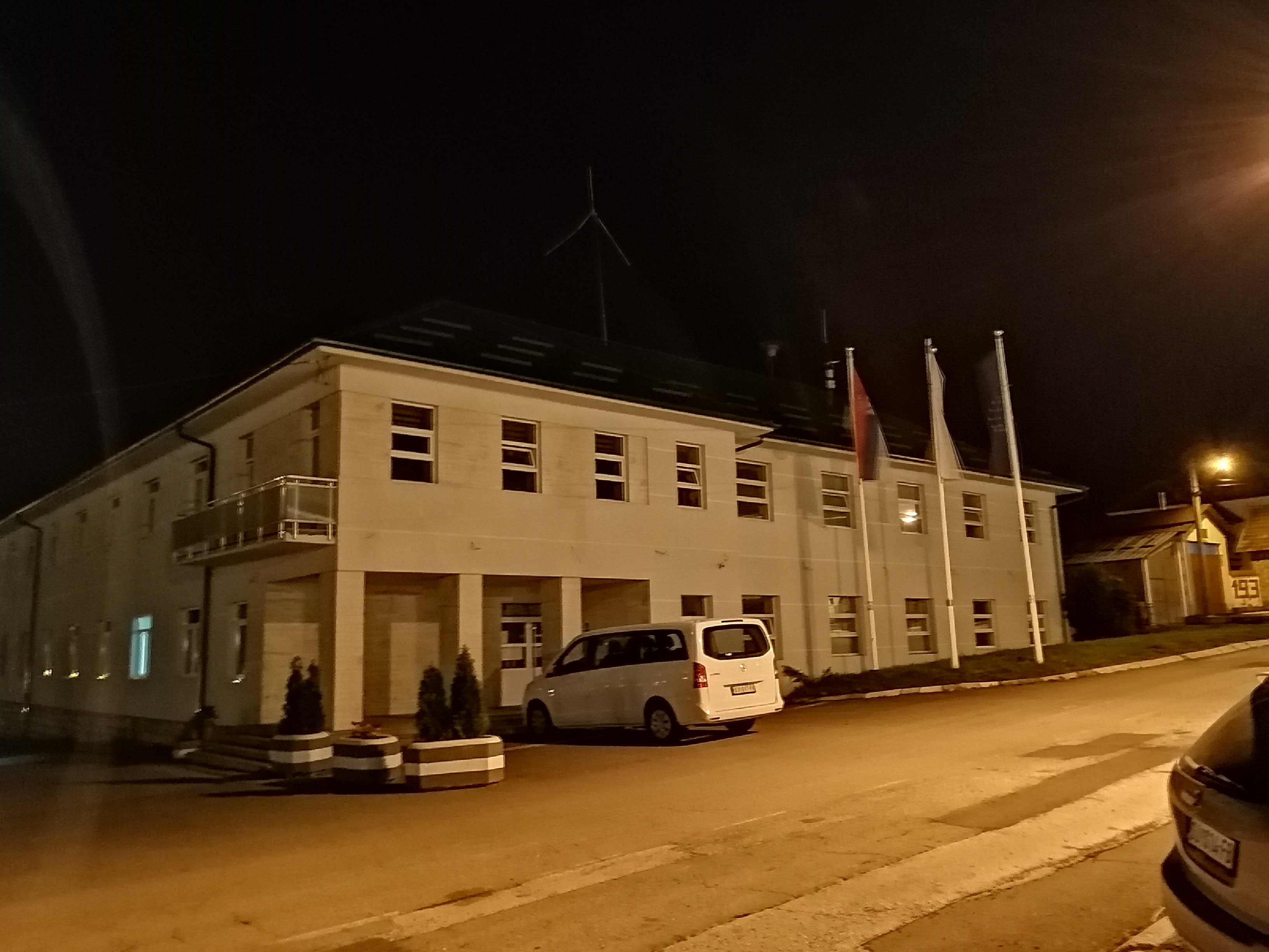 Town Hall Sjenica Srpski (latinica): Zgrada opštine Sjenica